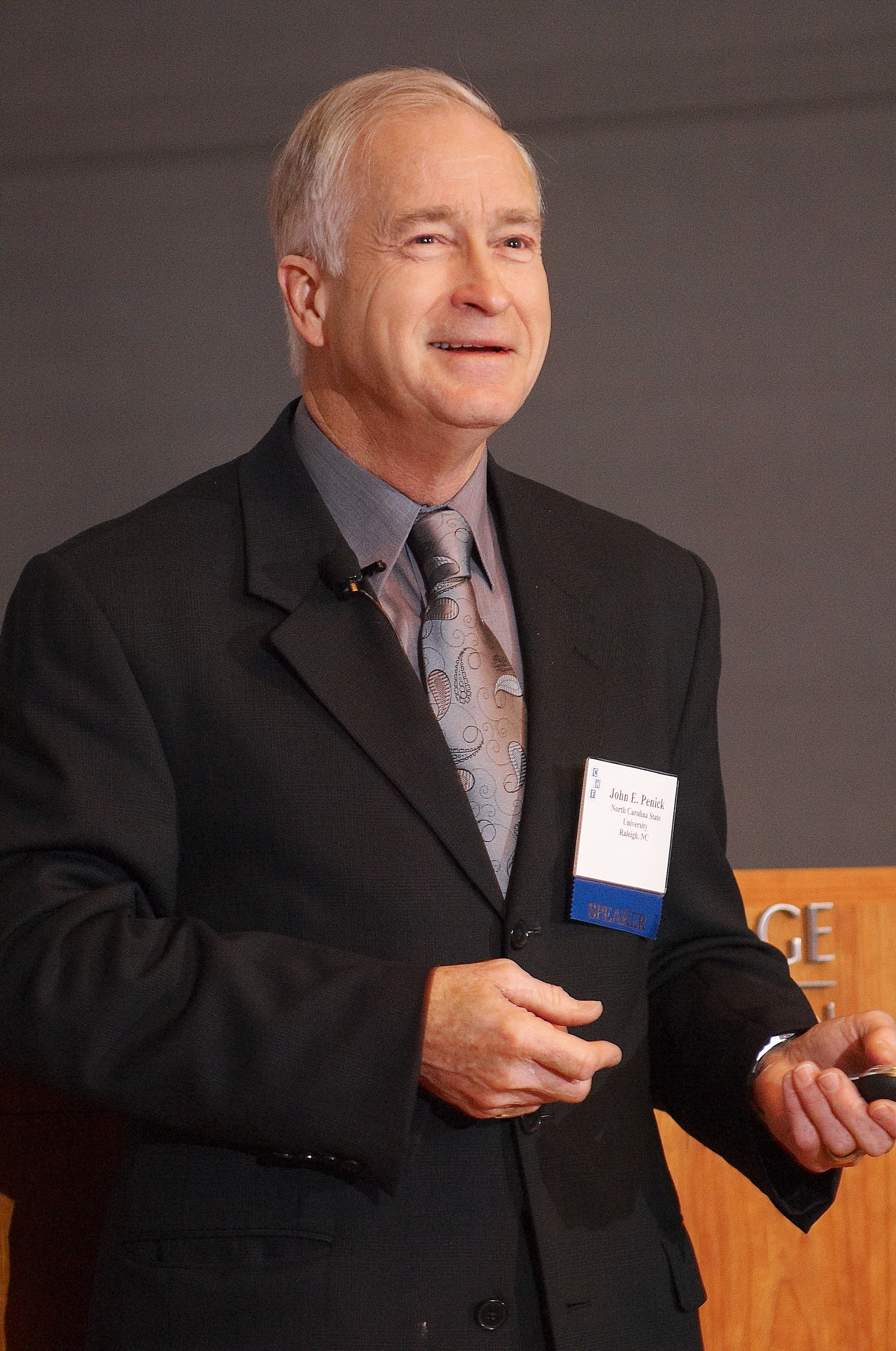 Photograph of John Penick, speaker at LISE 2007 (Leadership Initiative in Science Education, 7th Annual Conference), "21st Century Science Education: Preparing Teachers and Students for the Future", April 16-17 2007, organized by the Chemical Heritage Foundation.